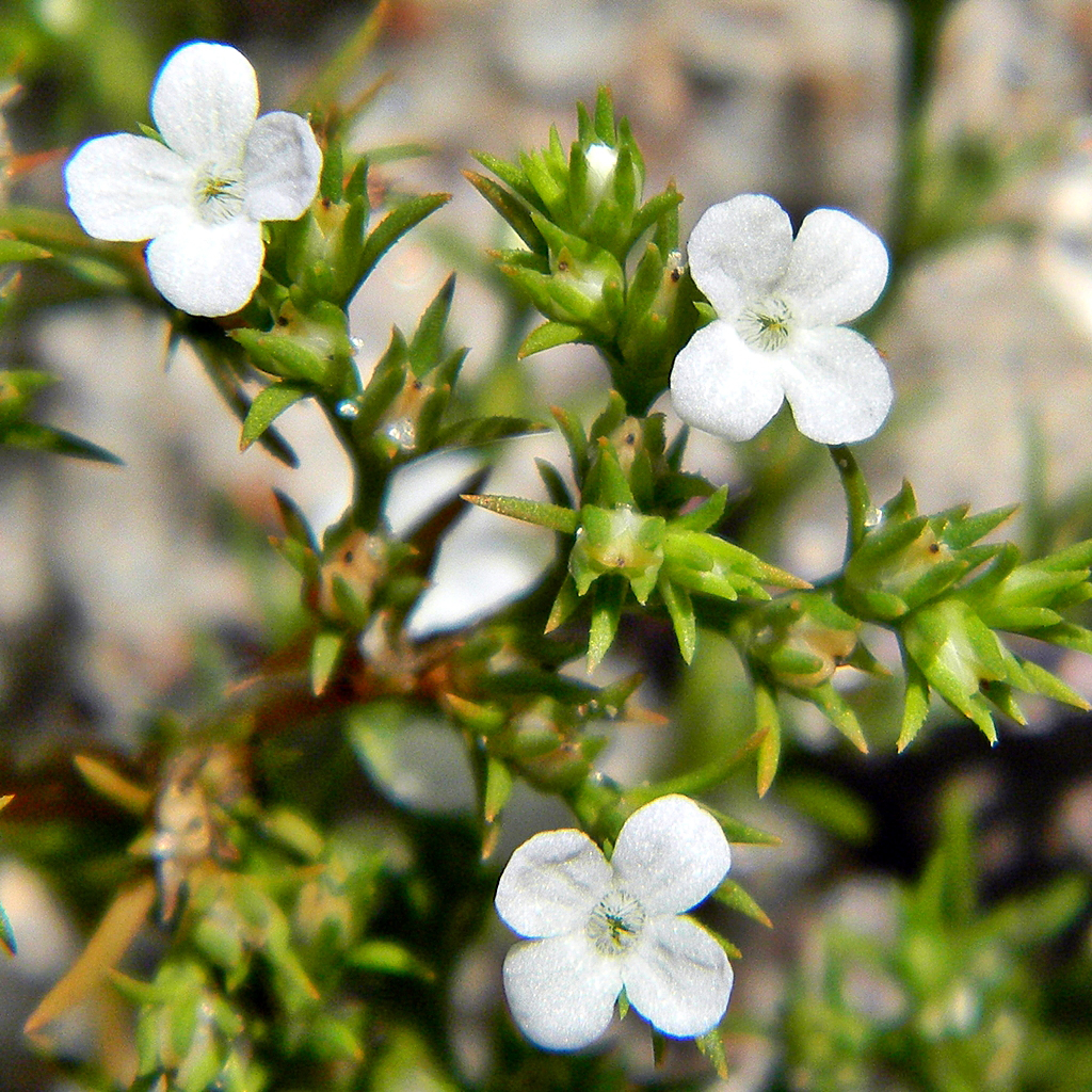 Polypremum procumbens L. (rustweed or juniperleaf). This photo was taken on September 22, 2011 in North Palm Beach, Florida, US, using a Nikon Coolpix L110.